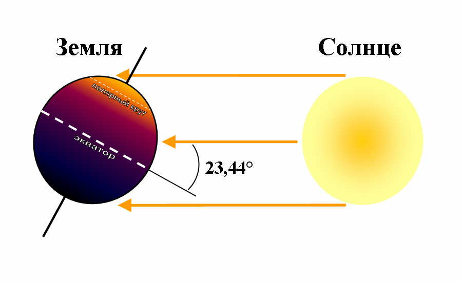 Northern solstice